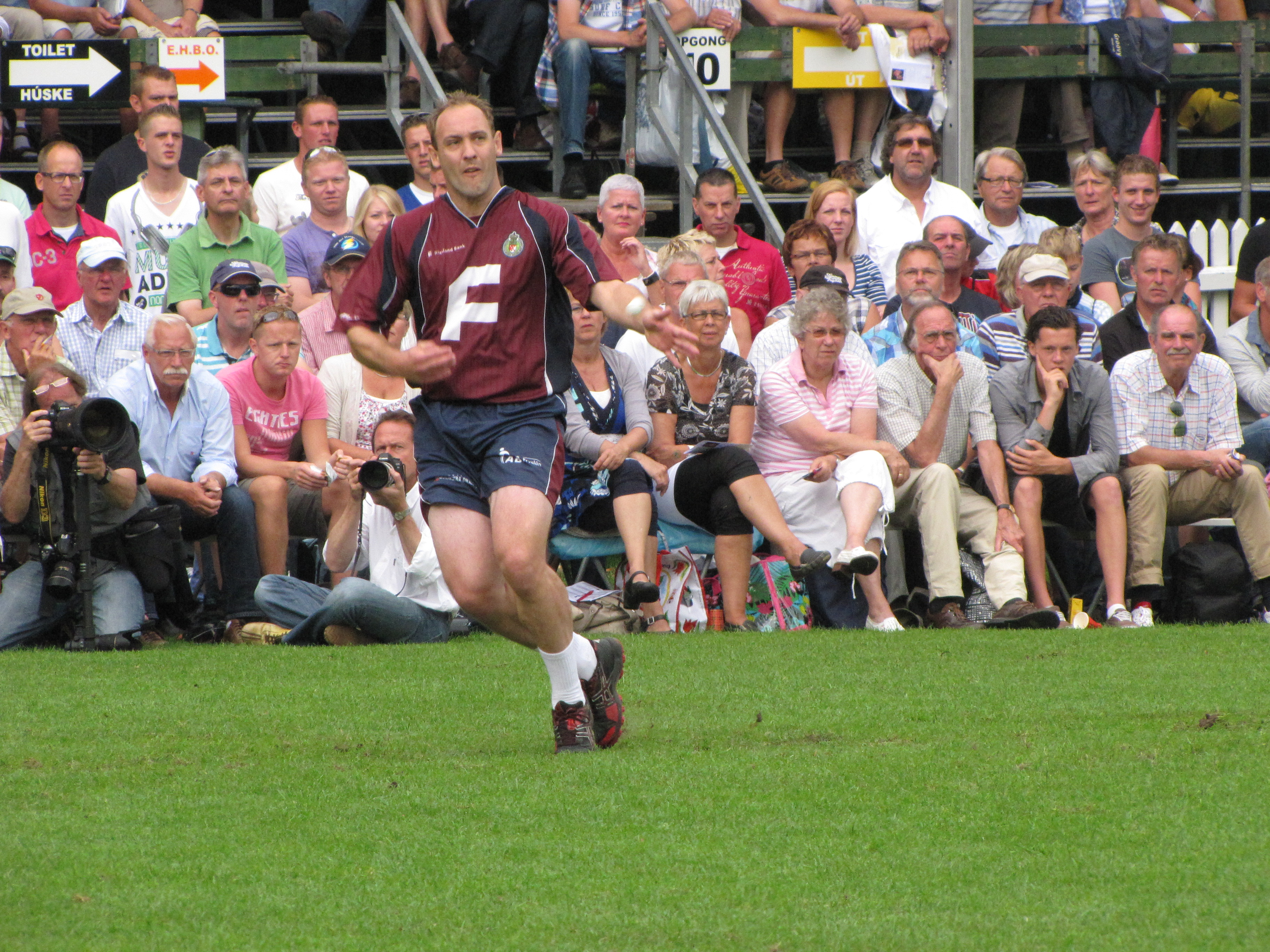 Daniel Iseger in action on the PC of 2011Frysk: Daniel Iseger yn aksje op de PC fan 2011